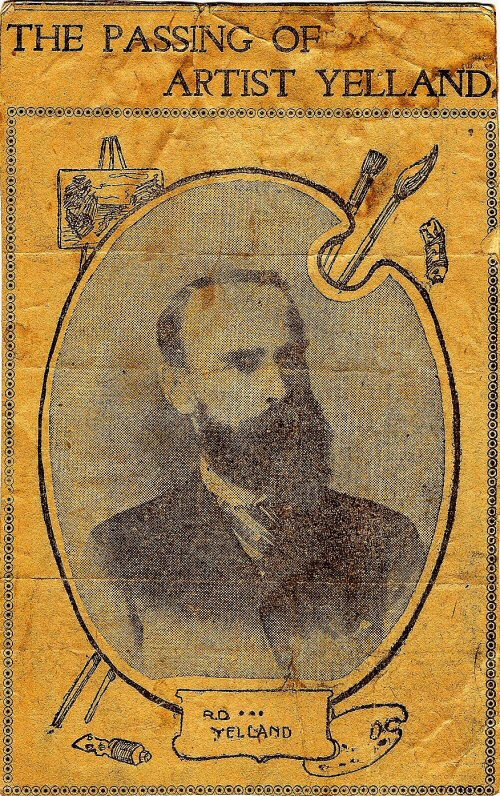 Raymond Dabb Yelland, obituary photo